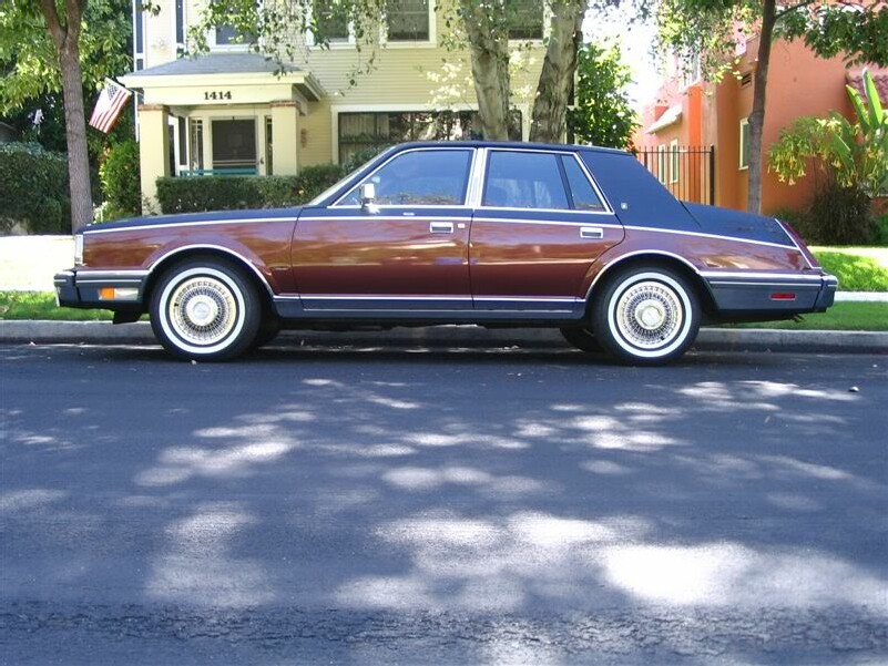 This is my 82 Continental Givenchy and I want this picture used